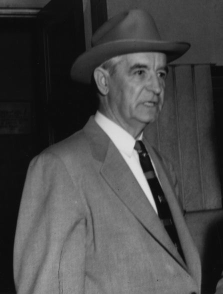 Collection Name: Missouri State Penitentiary Photographs Photographer/Studio: Kroeger, Joseph C. Description: Governor Phil M. Donnelly and Colonel Hugh Waggoner, Superintendent Of Missouri State Highway Patrol, taken in front of Administration Building at Missouri State Penitentiary. Coverage: United States – Missouri – Cole – Jefferson City Date: September 22, 1954 Rights: Copyright is in the public domain. Credit: Courtesy of Missouri State Archives Image Number: MSP4162 Institution: Missouri State Archives